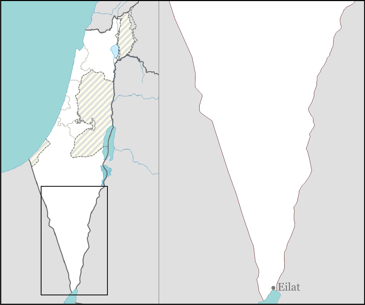 Map for southern Israel (Negev Mountain) localities pushpin maps.